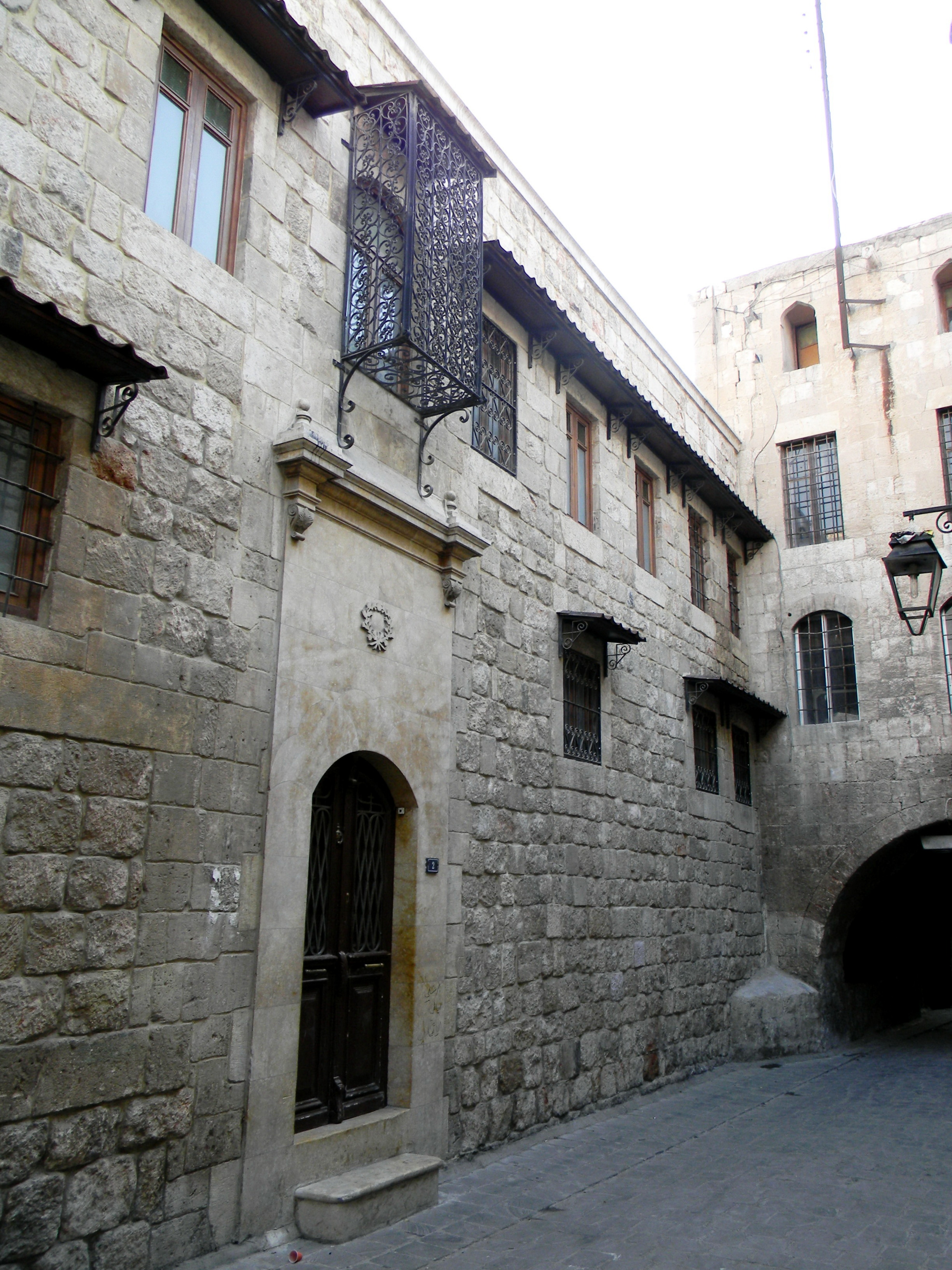 17t century building at the Armenian quarter, Jdeydeh, Aleppo